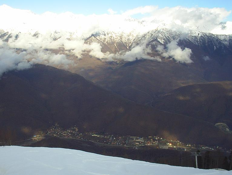 View on Esto Sadok from Mountain Aibga Western Caucasus.